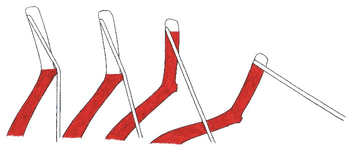 Function of an Asiatic Siyah(Bowtip), leverage is red.